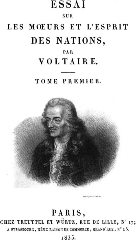 Title page from "Essay on Morals" (1756), by Voltaire (1694-1778)